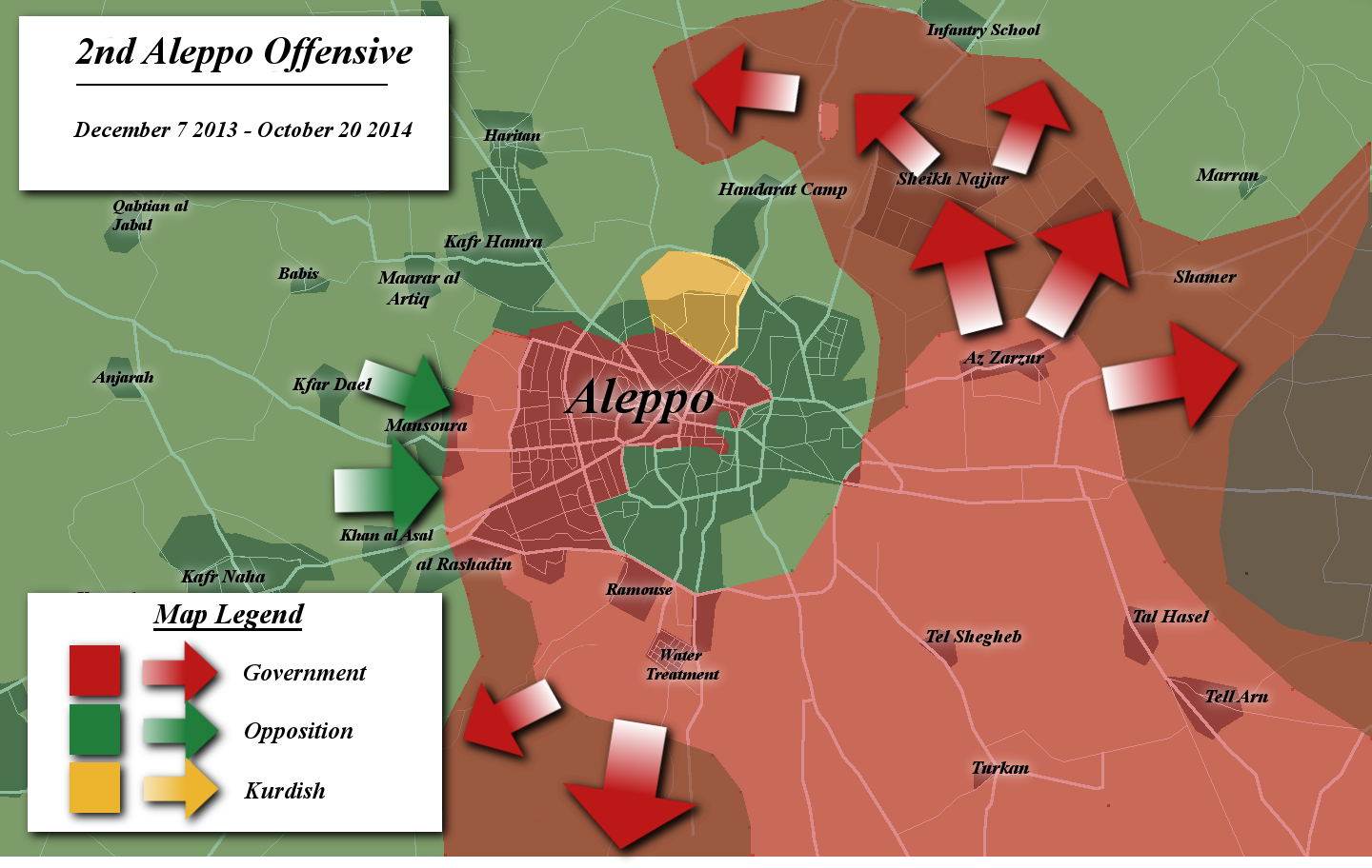 A simplified version of the 2nd Aleppo Offensive (Operation Canopus Star). Created in gimp 2.8. Influenced by many maps from creators: MrPenguin20, PetoLucem, and so on.